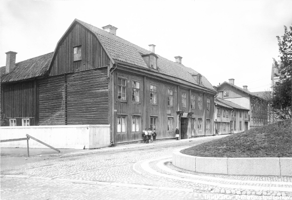 The old house "Borgarhuset", Örebro, Sweden